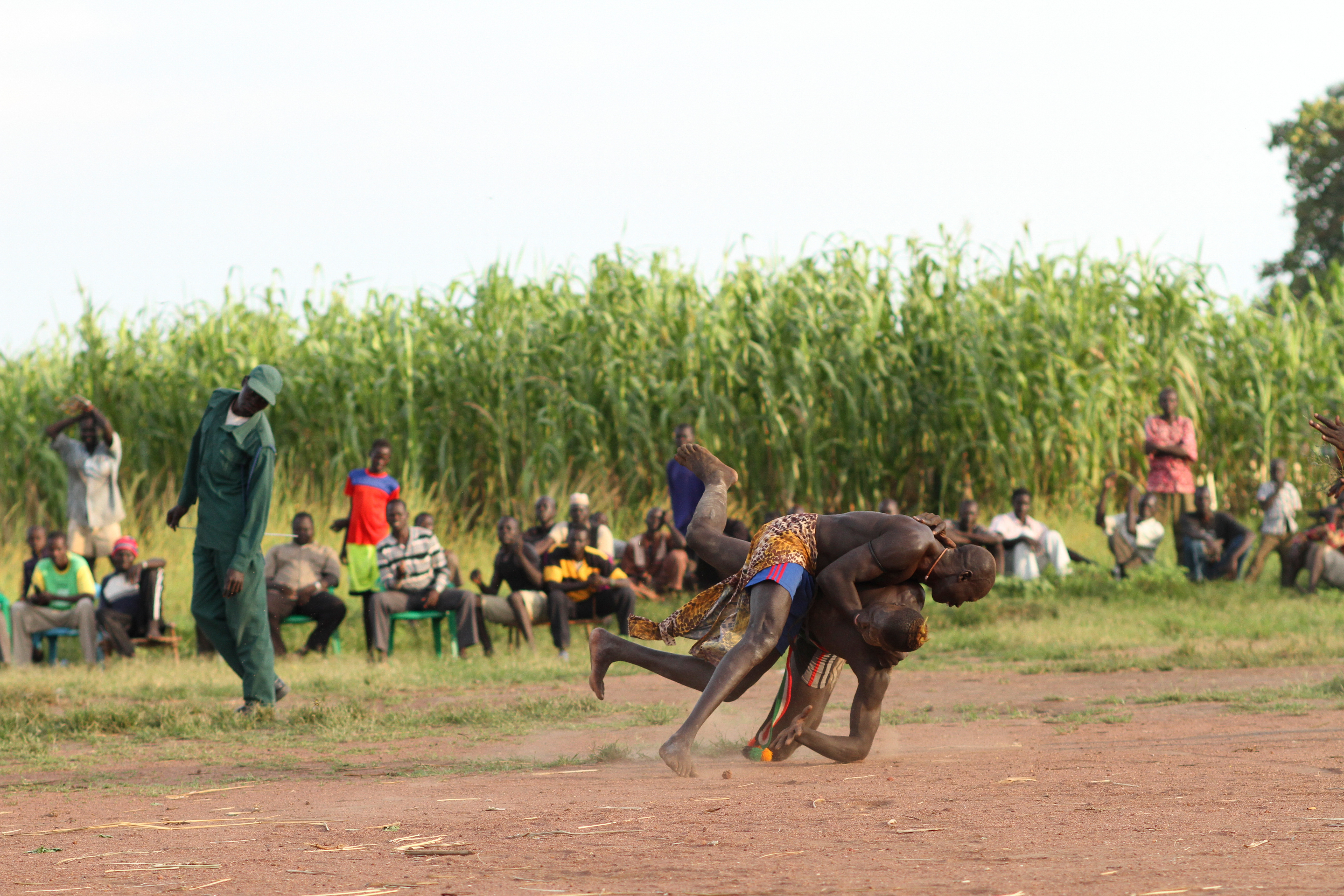 COMMISIONED This is an image with the theme "Play" from: South Sudan